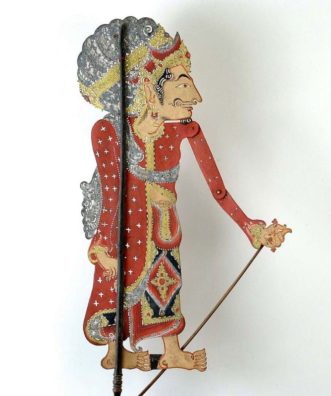 Wayang kulit figure, representing Pandu